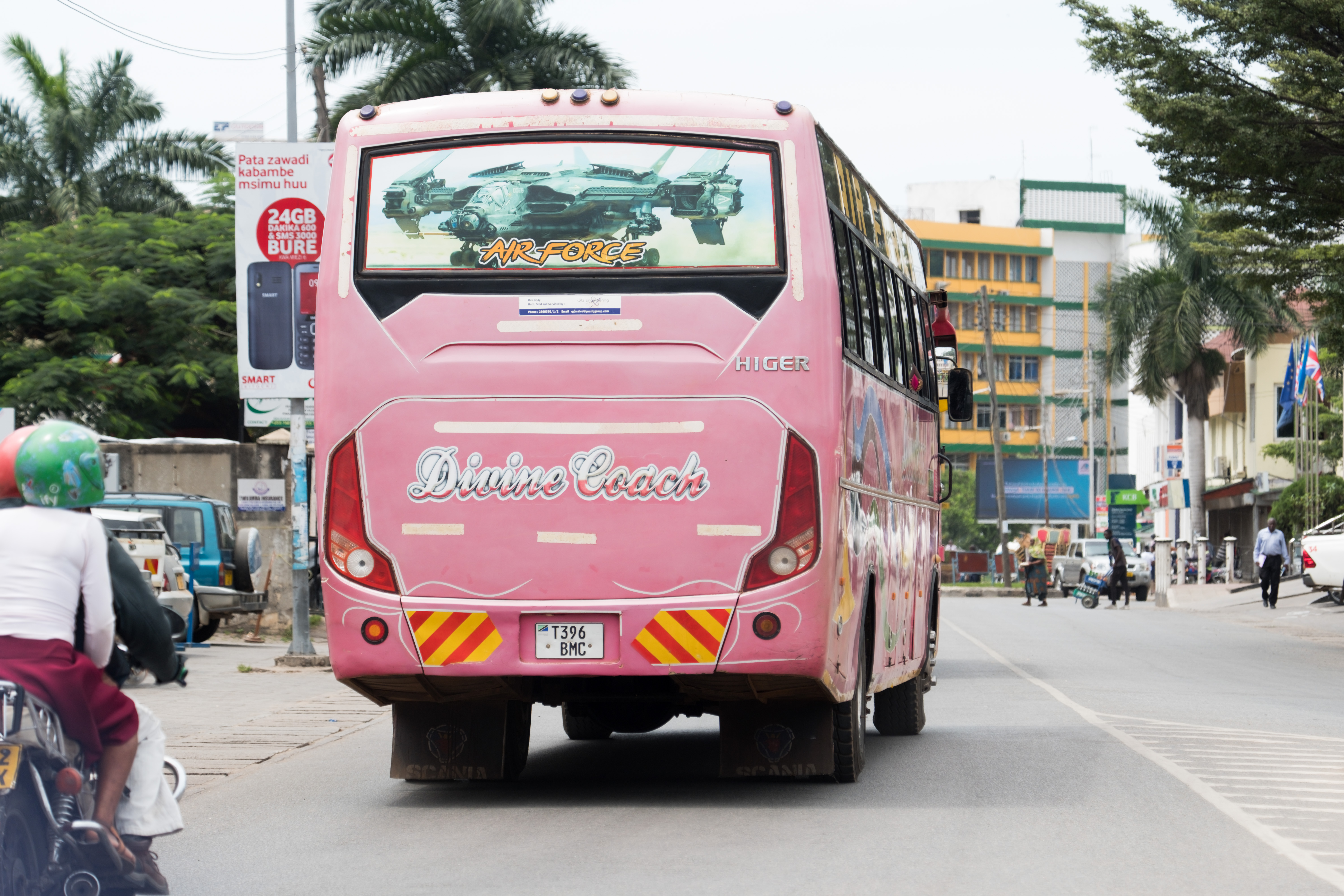 Regional integration in Tanzania is a key determinant of economic growth. People travel for trade and commerce, with the use of buses as seen in the picture, it is a safe and cheaper way that brings people of different tribal ethnicity to get together in the journey along in search for a better life. This is an image with the theme "Africa on the Move or Transport" from: Tanzania